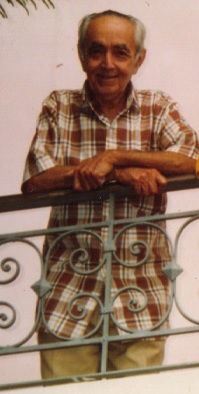 Vicente Sampaio